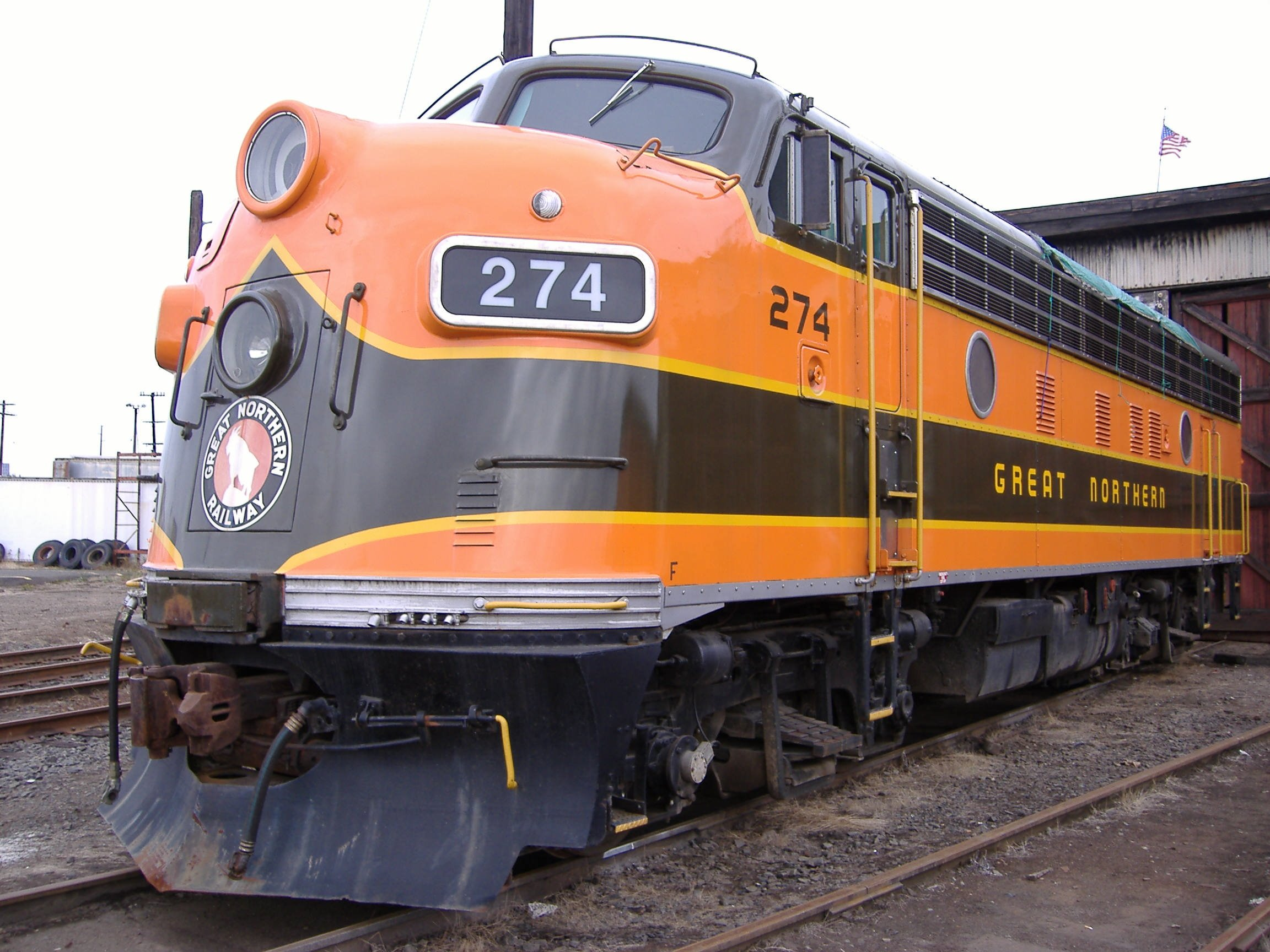 Great Northern Railway (US) F7 274, built in 1950.